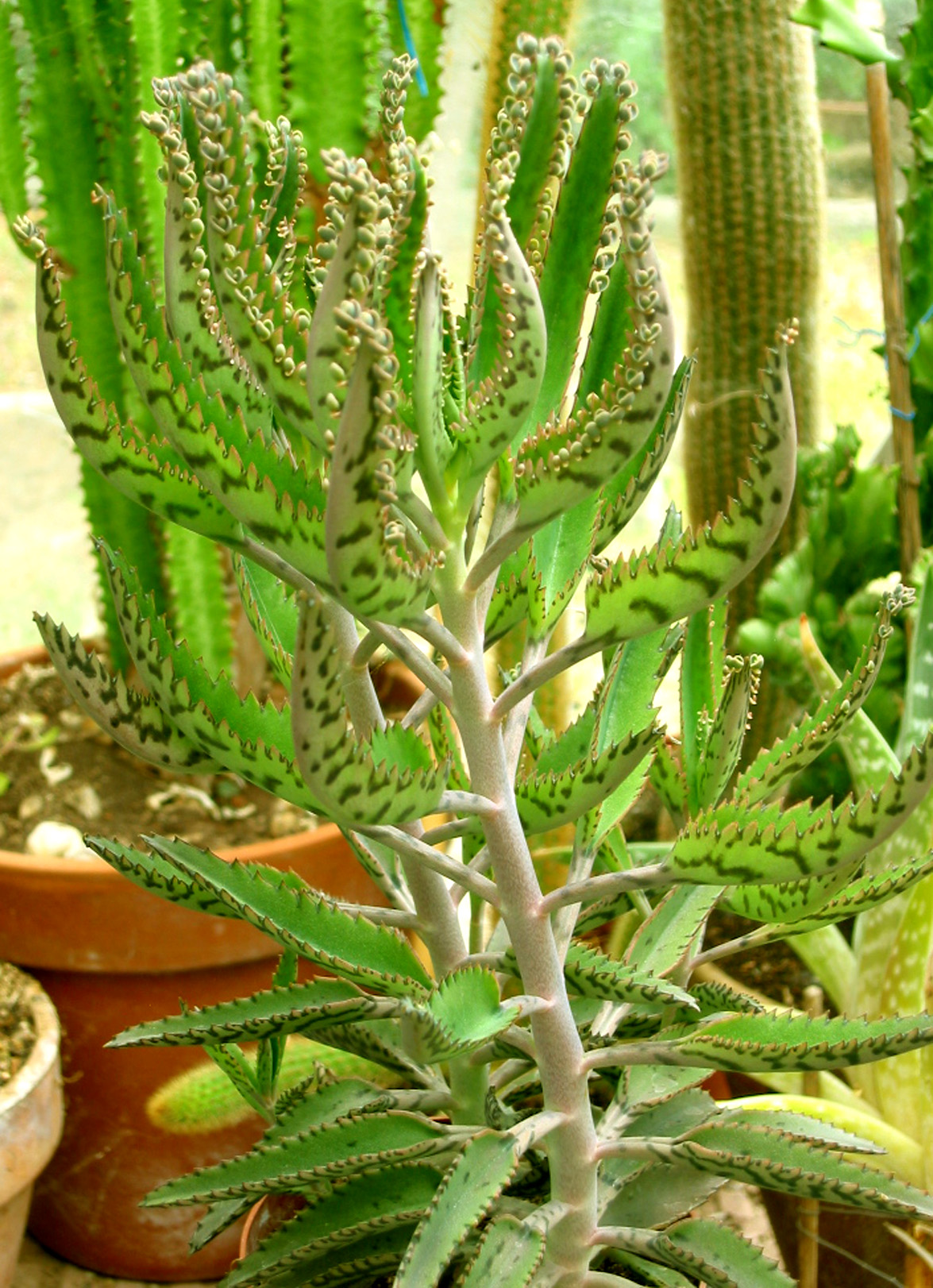 Kalanchoe daigremontiana Autor/author:User:Anna